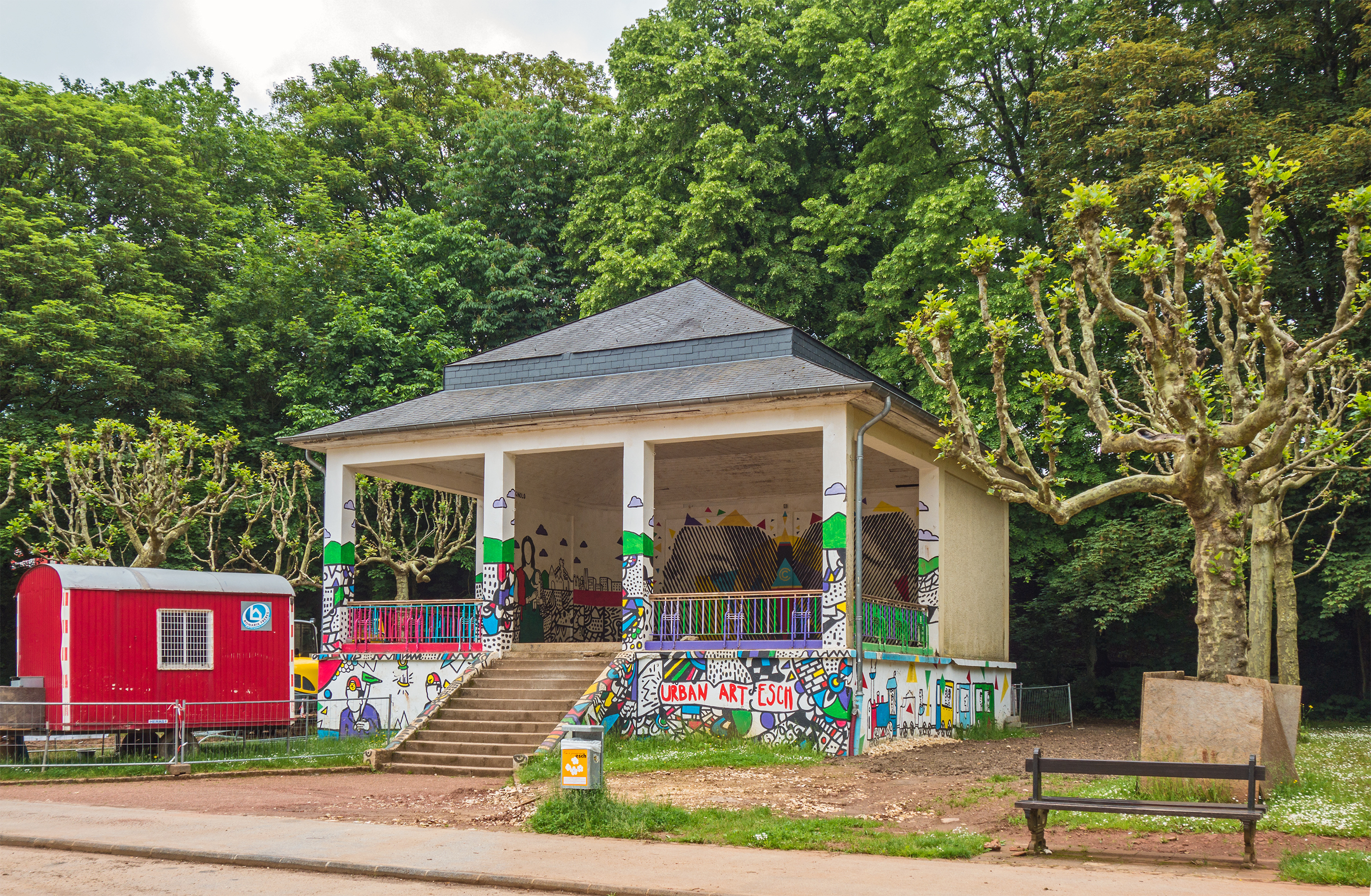 Kiosk in the city park of Esch-Alzette on the Gaalgebierg